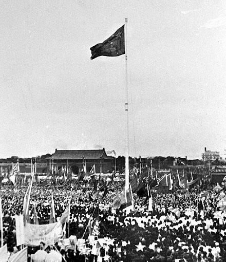 On October 1, 1949, Mao Zedong pressed the button and raised the national flag of China in the first time in the announcement of the founding of the People’s Republic of China at Tiananmen Square.中文（中国大陆）: 1949年10月1日，在中华人民共和国开国大典上，毛泽东按下电钮，第一面中华人民共和国国旗在天安门广场缓缓升起。